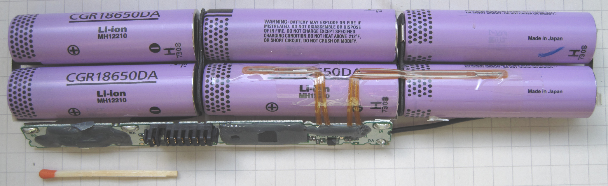 The internals of a 10.8V 4.8Ah laptop battery. Showing the six (two parallel strings of three series wired 18650) lithium-ion cells. Each cell has a voltage of 3.6V. Clearly seen at the bottom of the cell bundle is the small circuit board containing the charging and safety circuitry. Attached to two of the cells are temperature sensors. A match is shown for scale and the background is a 7 mm grid.